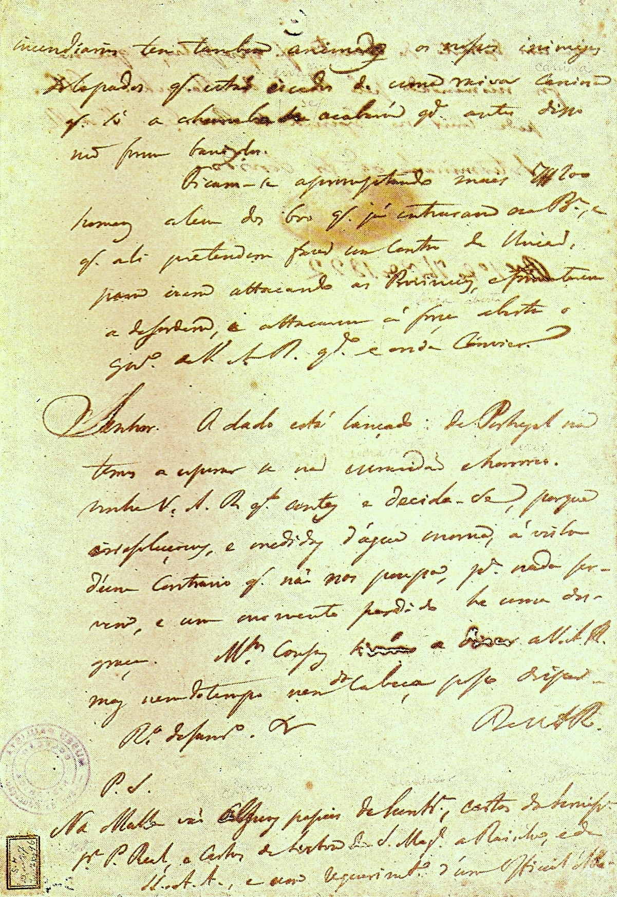 Letter sent by José Bonifácio de Andrada e Silva to D. Pedro, later Pedro I of Brazil, about the general situation of the country and the progress of the movement towards independence from Portugal. The letter contains a decisive excerpt to the proclamation of independence. Written in Rio de Janeiro and dated of September 1st, 1822. Unsigned. Three sheets manuscript, 21 x 30.5 cm. Museu Paulista (Museu do Ipiranga) collection, São Paulo, Brazil. Translation of excerpt: "Sir. The die is cast: from Portugal we have nothing to expect but slavery and horrors. Come, Your Highness, as soon as possible and make up your mind, because irresolutions and luke-warm measures, in face of these occurrences that won't spare us, are worthless, and each momment lost is a disgrace."